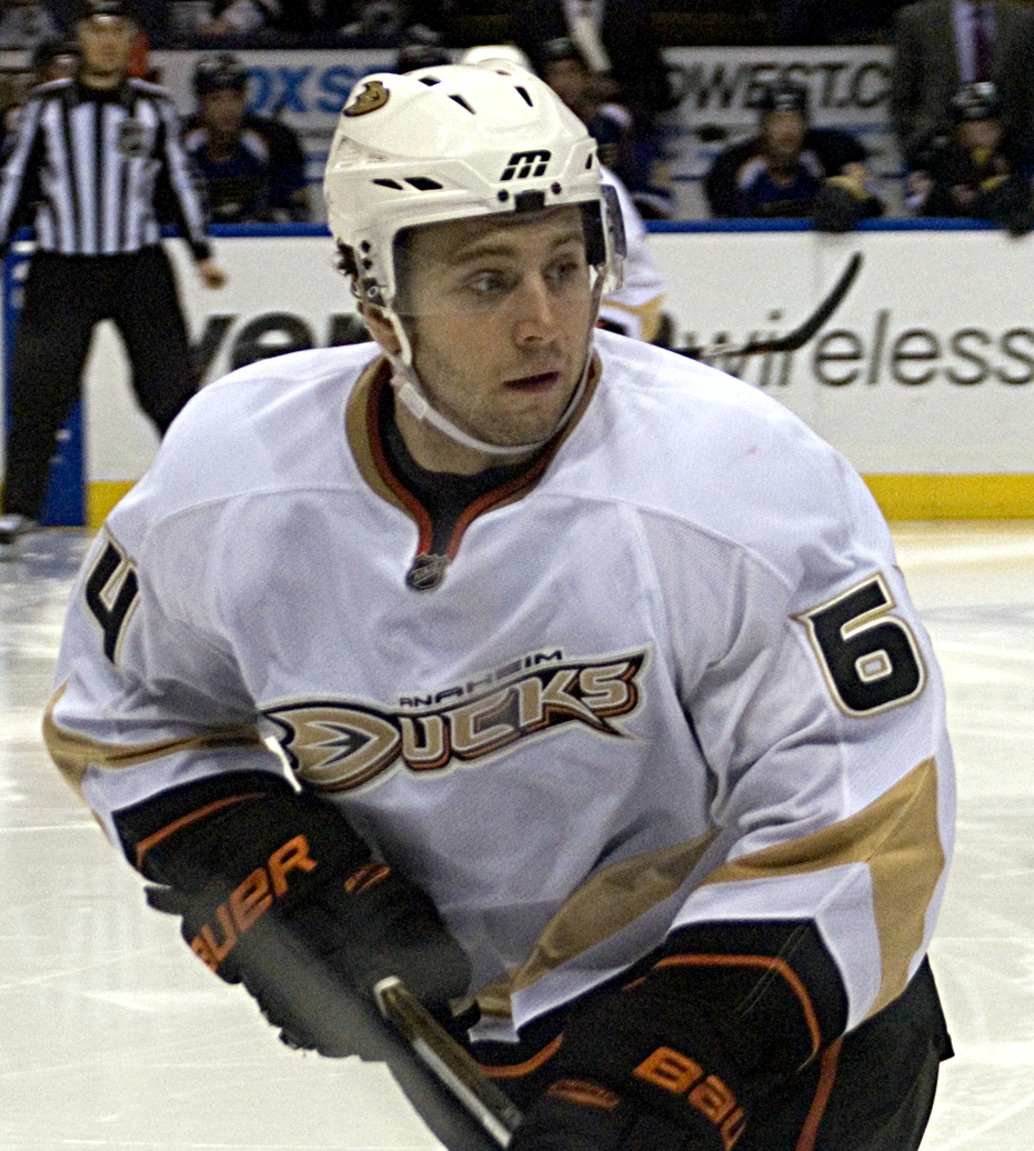 Brandon McMillan Anaheim Ducks versus St. Louis Blues. National Hockey League (NHL) Blues won 9-3 at Scottrade Center in St. Louis, Missouri. Taken by Sarah Connors on February 19, 2011 in using a Nikon D200. This photo also appears in Sarah Connors' Flickr set "Blues vs. Ducks, 2/19/11" (Set of 105).